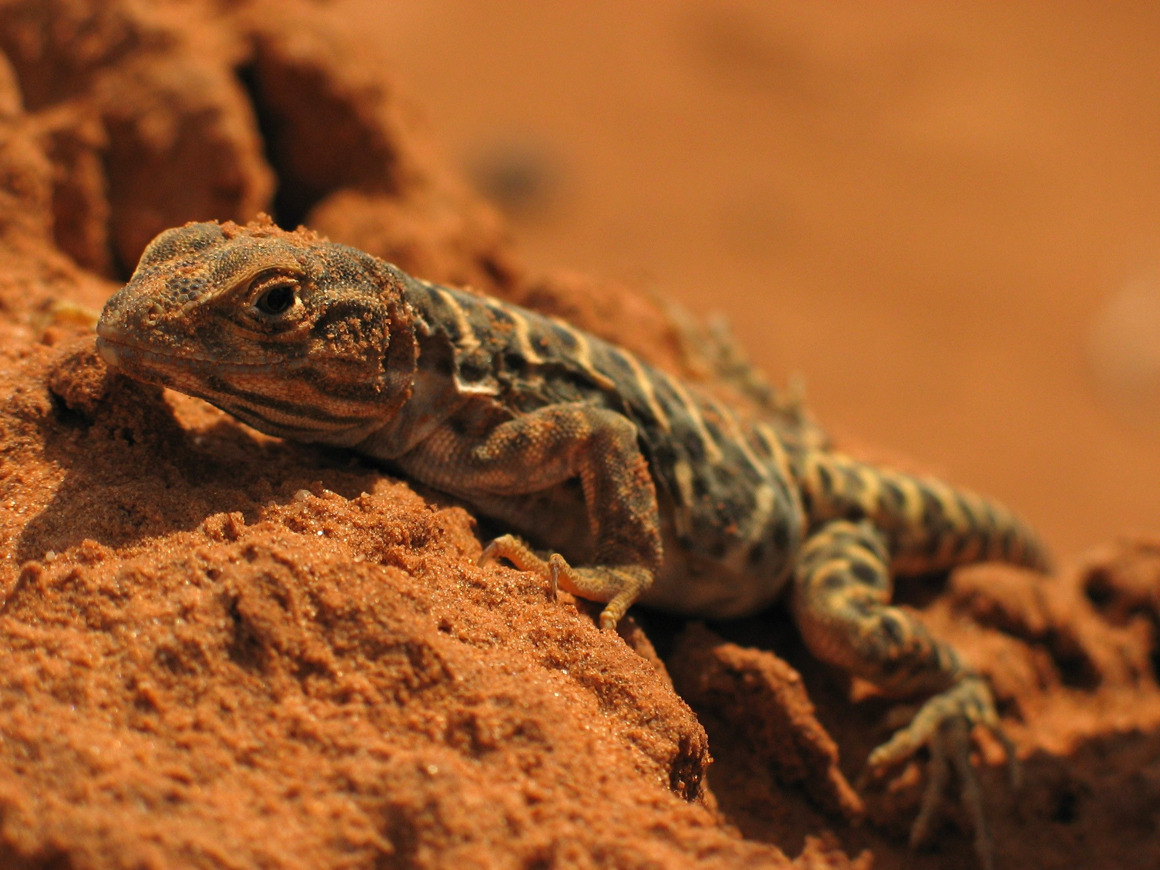 Picture of a Gambelia wislizenii (Long-Nosed Leopard lizard) pending further confirmation. Taken in Arizona, USA, south of Monument Valley by User:Dschwen.